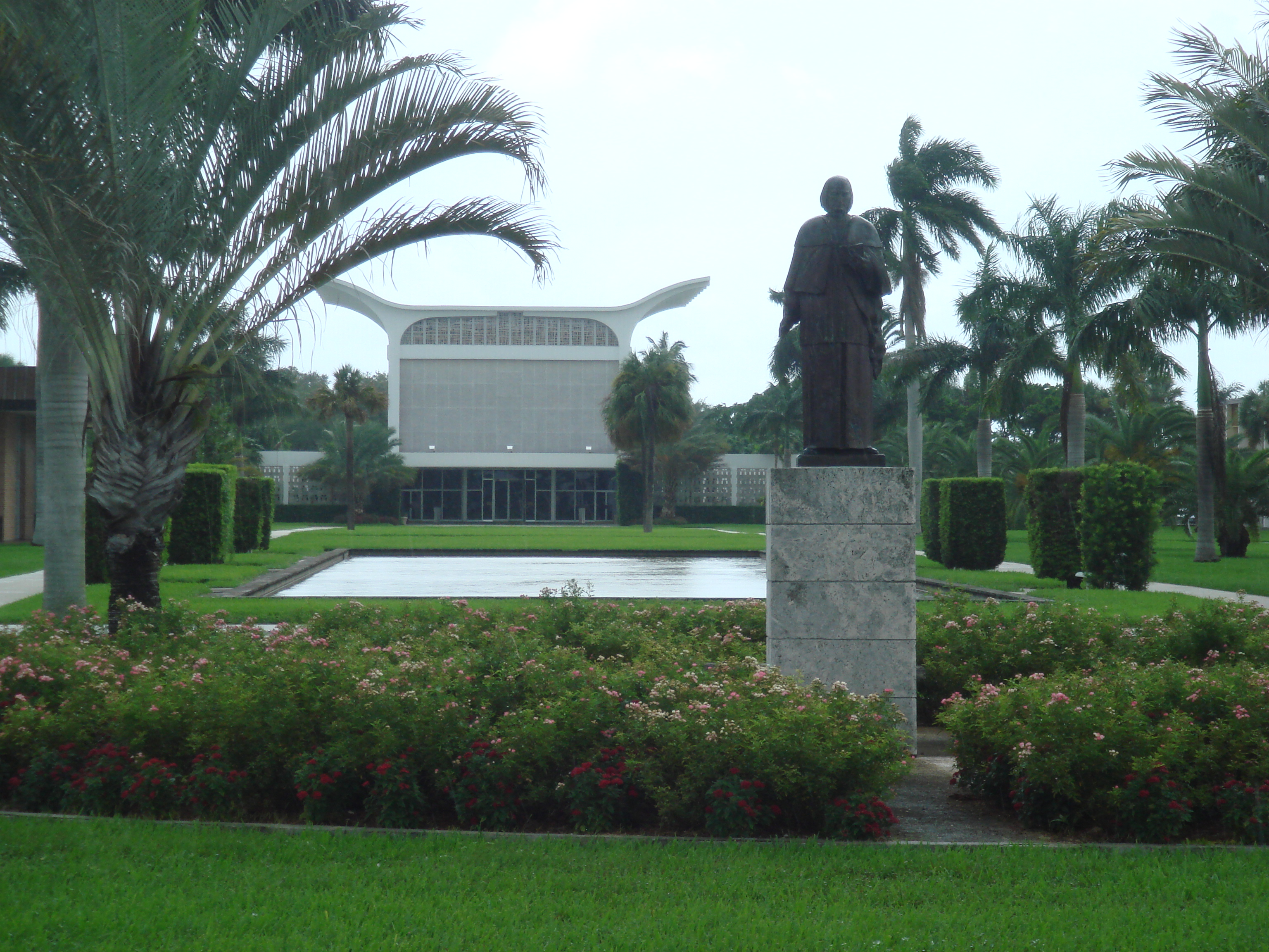 St. John Vianney Seminary entrance